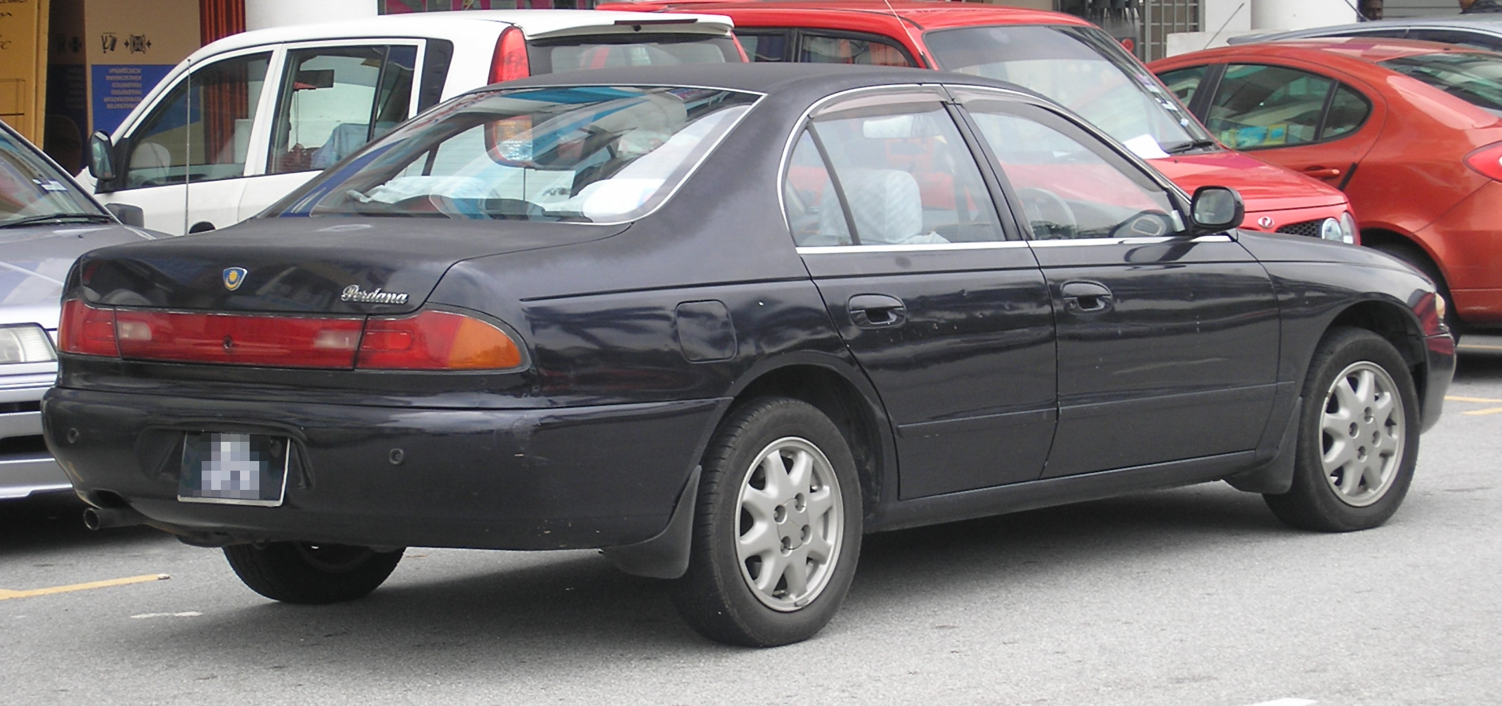 The rear of a first generation Proton Perdana, in Serdang, Malaysia.